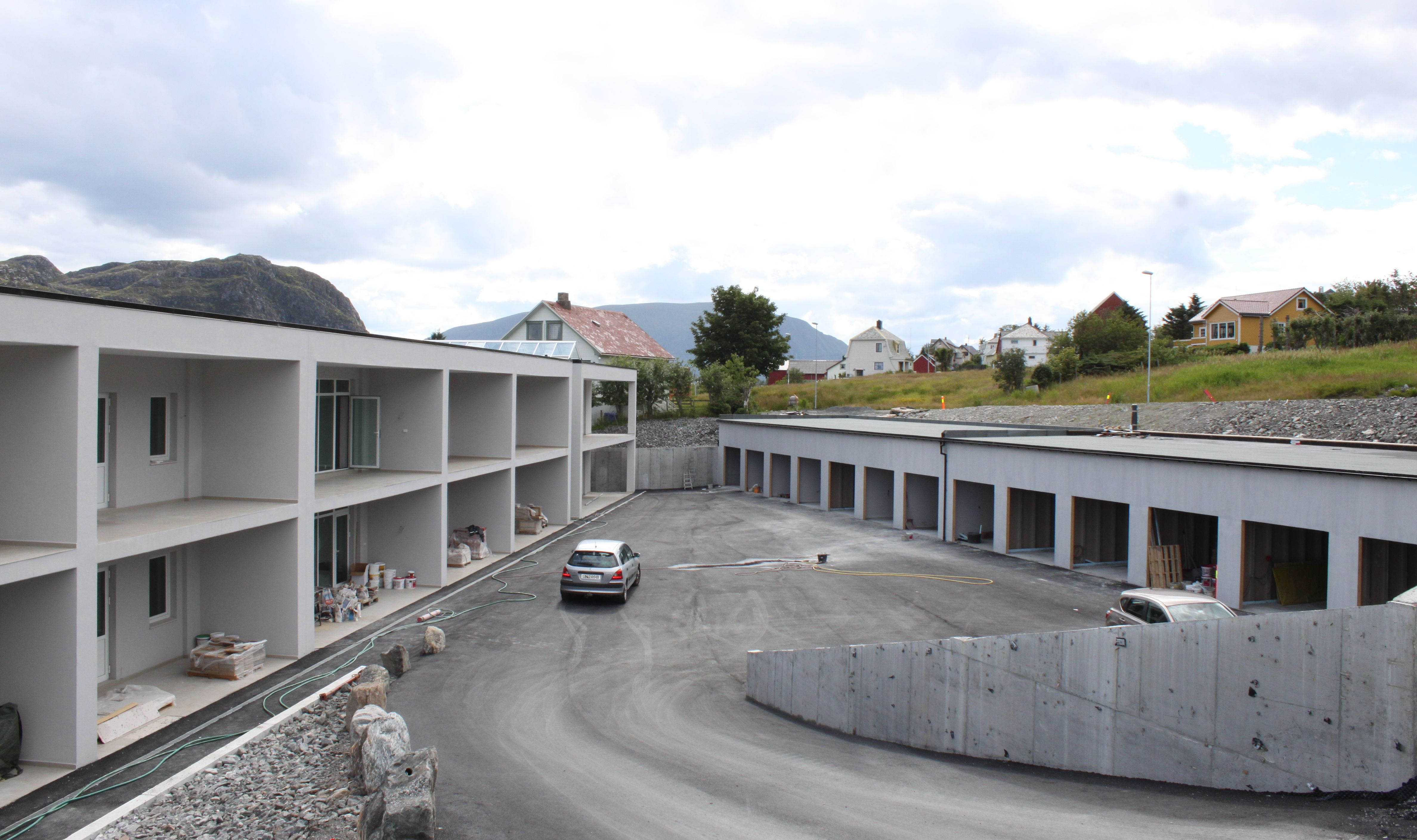 Apartment complex in Kvalsund on Nerlandsøy in Herøy municipality, Norway.